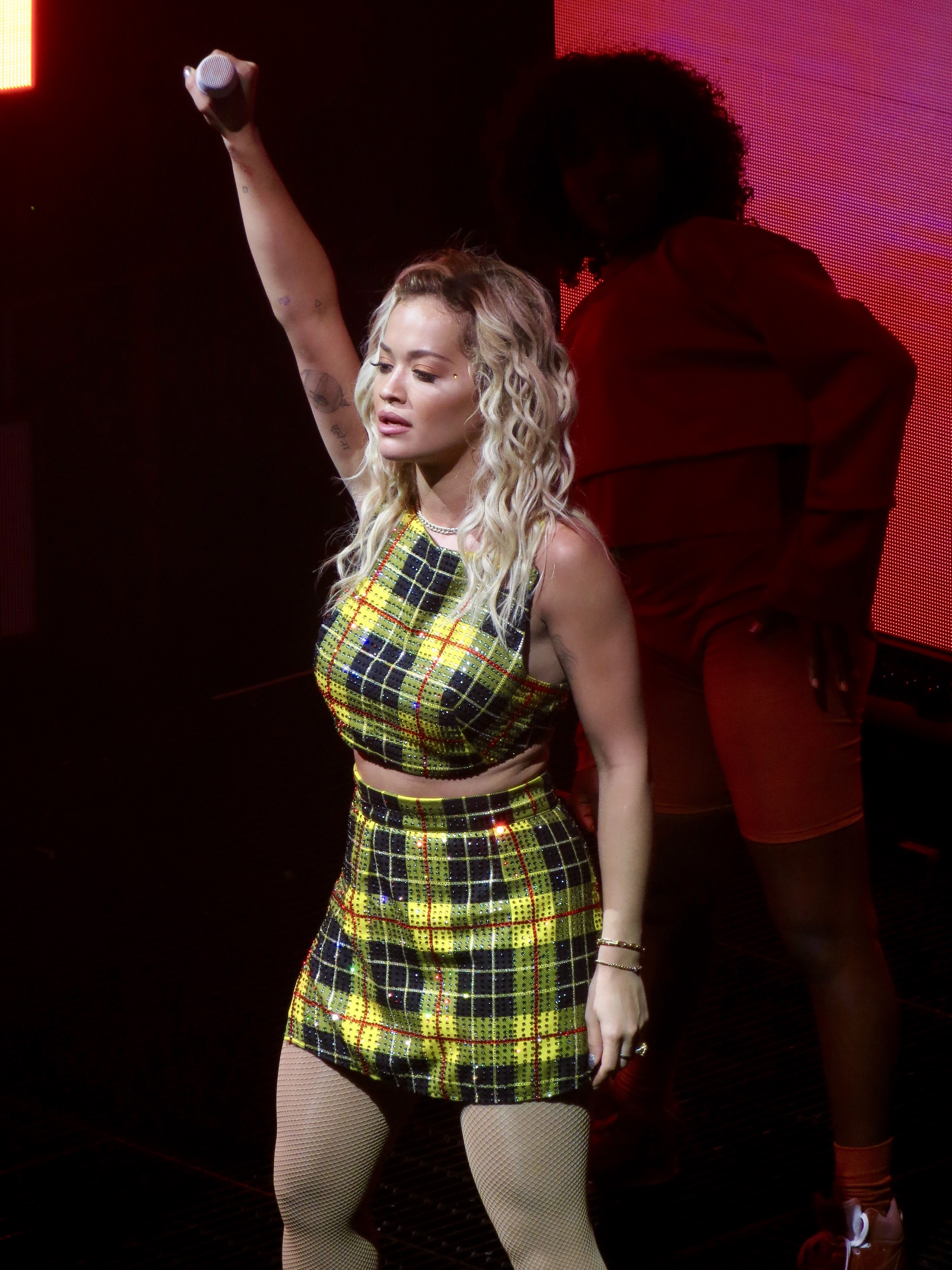 Rita Ora at The Girls Tour in Glasgow